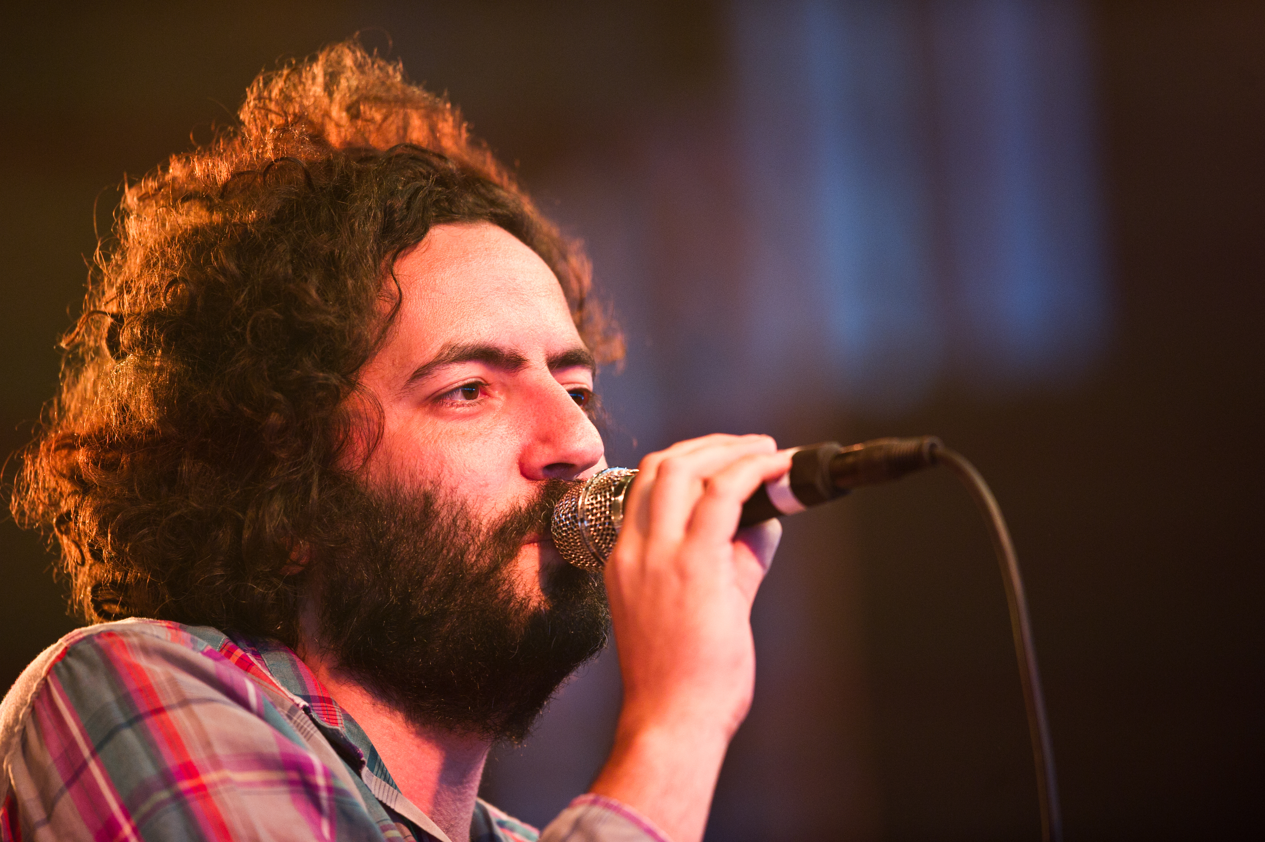 Destroyer's Dan Bejar singing at Roskilde Festival in 2011